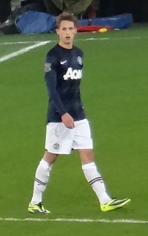 Adnan Januzaj v Cardiff City, 24/11/2013